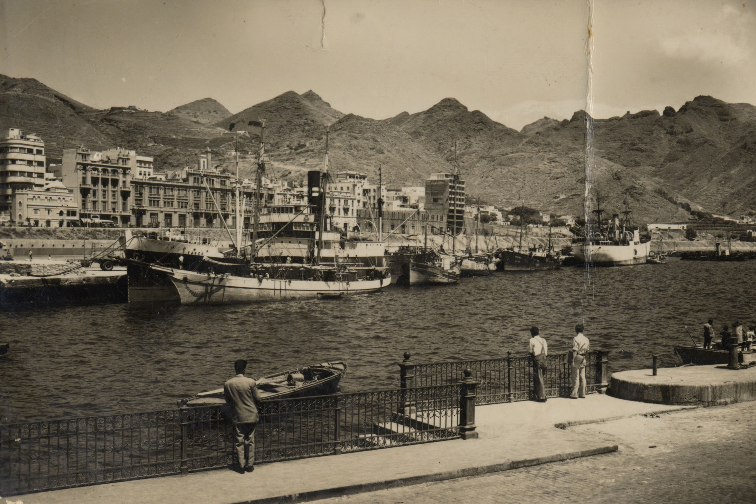 Santa Cruz de Tenerife harbor in the 1950s